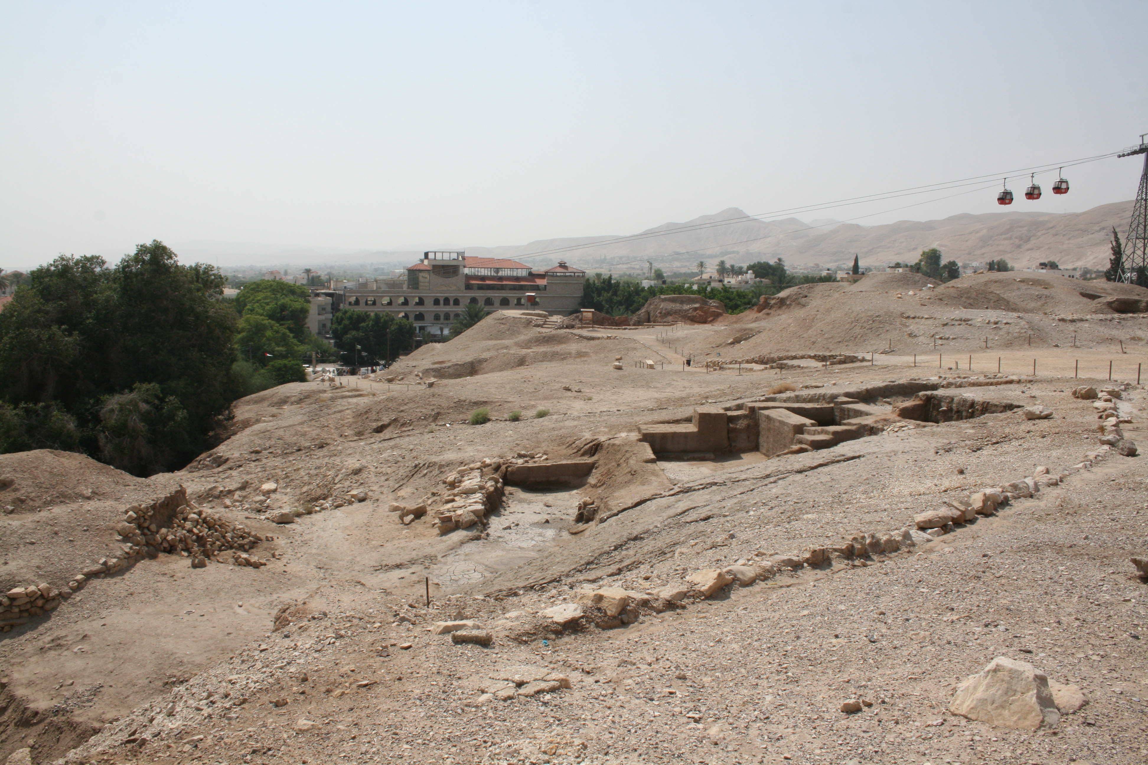 Tell es-Sultan, Jericho, Palestine